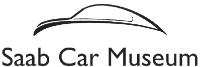 The Saab Car Museum logo in a larger version.